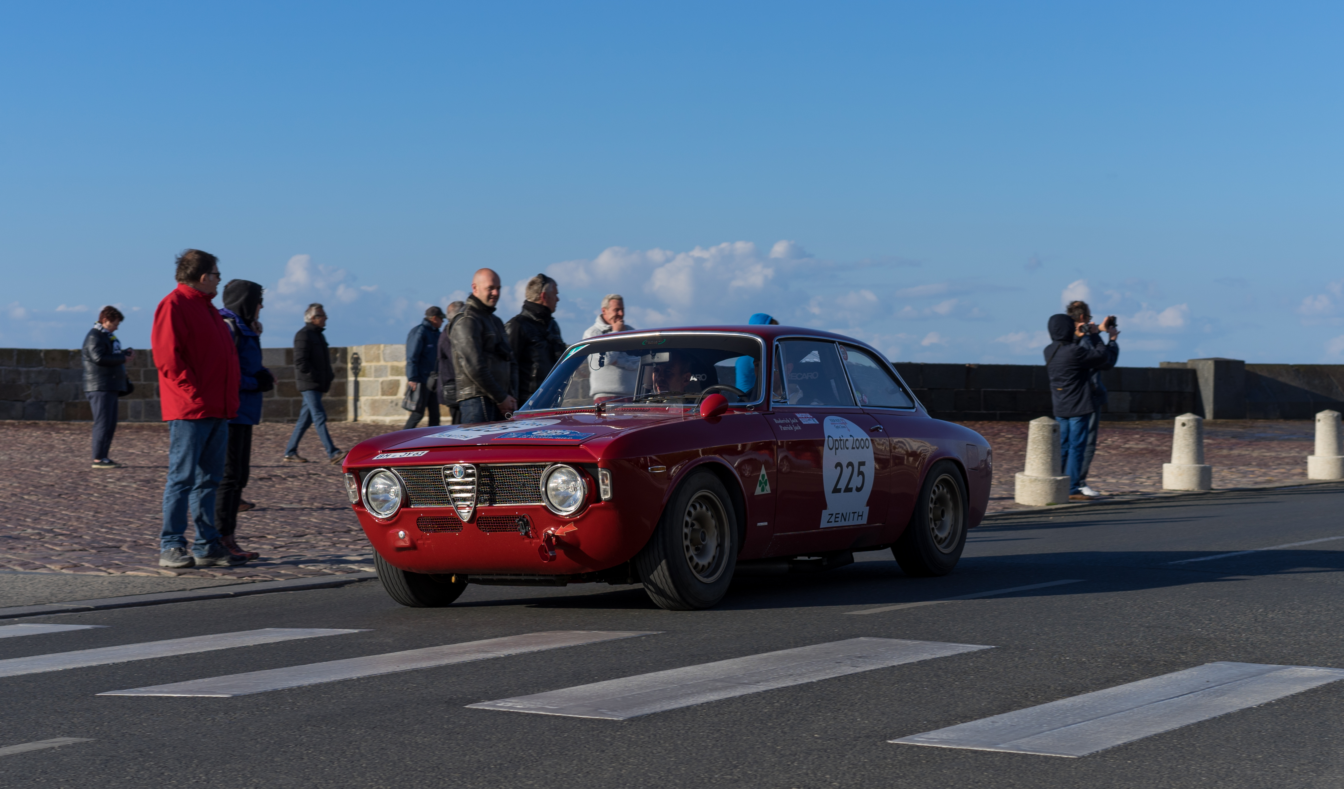 Competition TC8 0.86 Roderick JACK/Patrick Jack